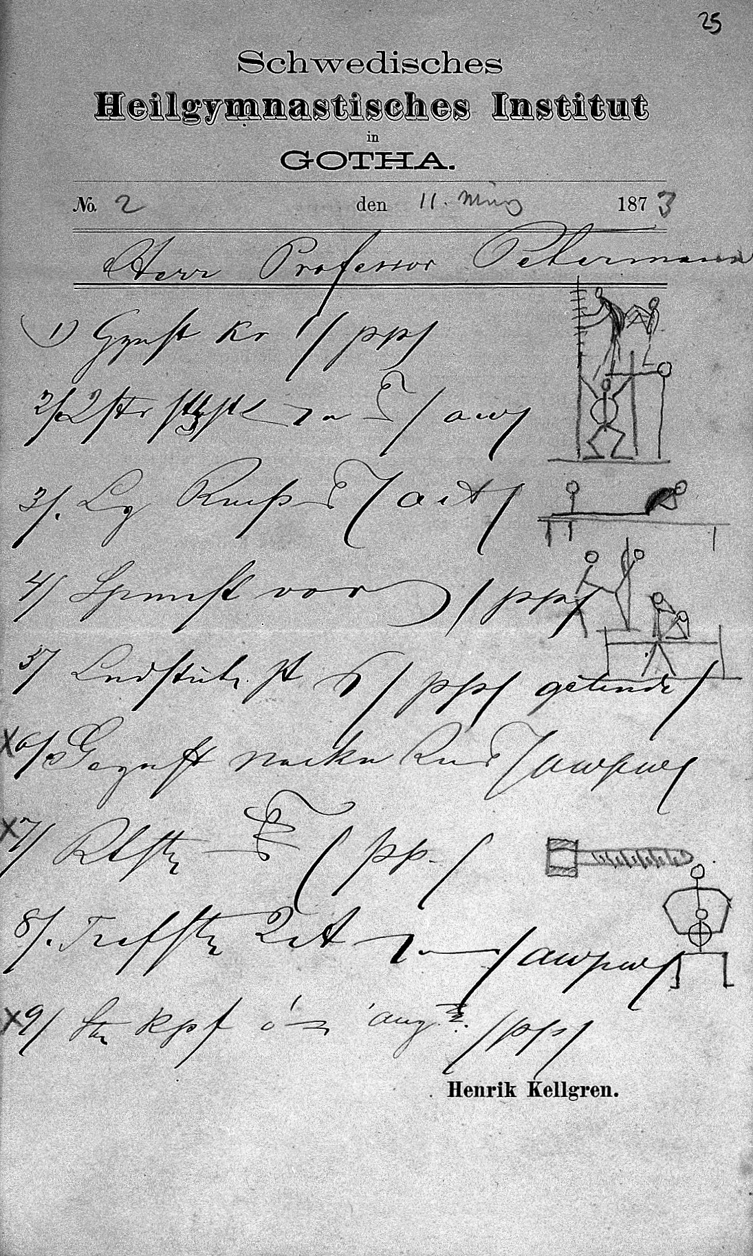 Prescription for Herr Professor Petermann, by Henrik Kellgren of the Schwedisches Heilgymnasticsches. MS 7869/25. Wellcome Images Keywords: henrik kellgren; Prescriptions; doctors